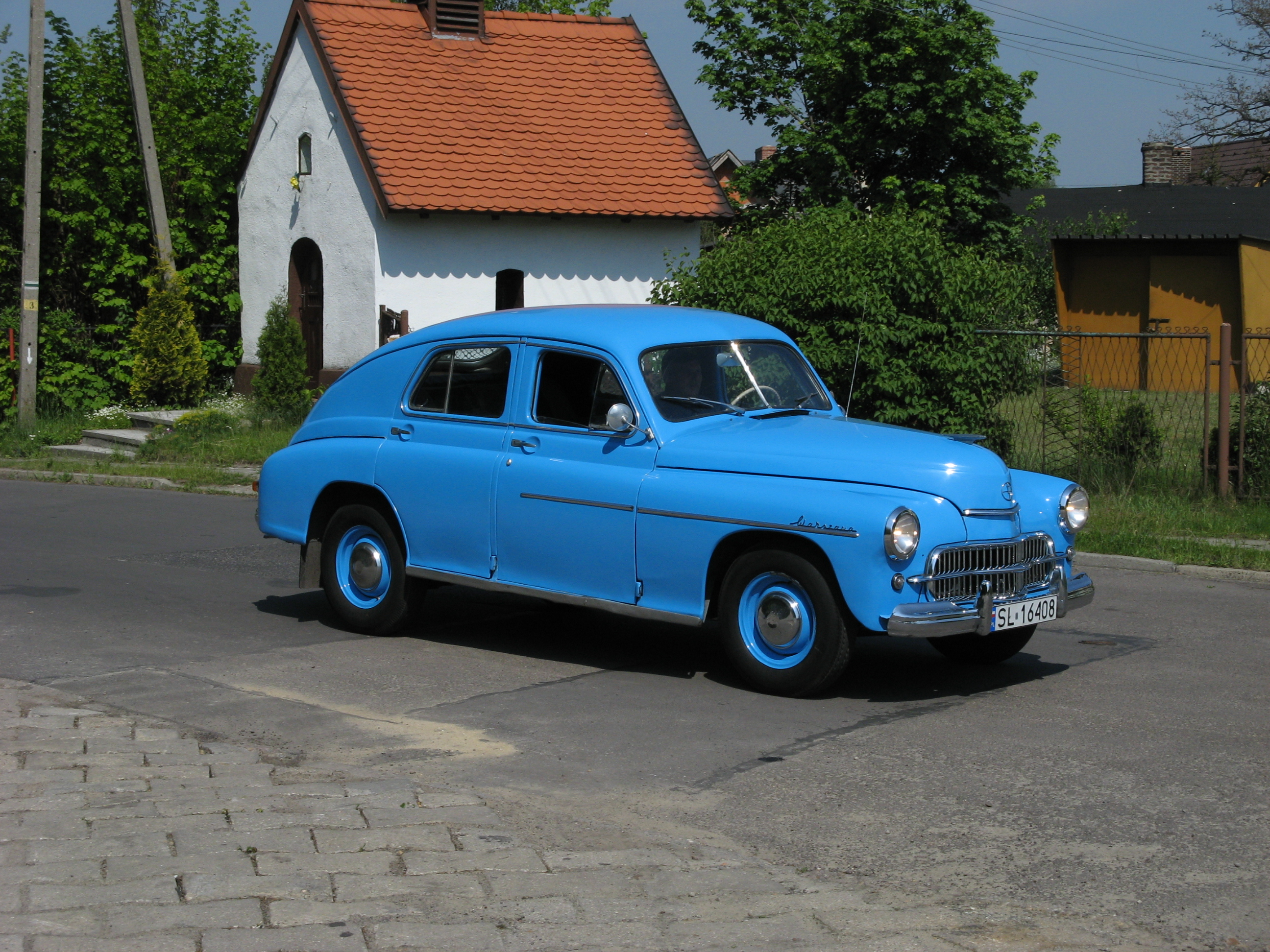 Polish car Warszawa